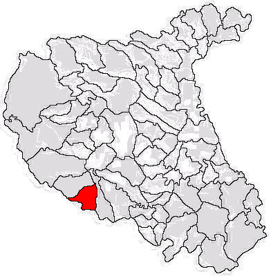 Map of limits of commune in Vrancea County